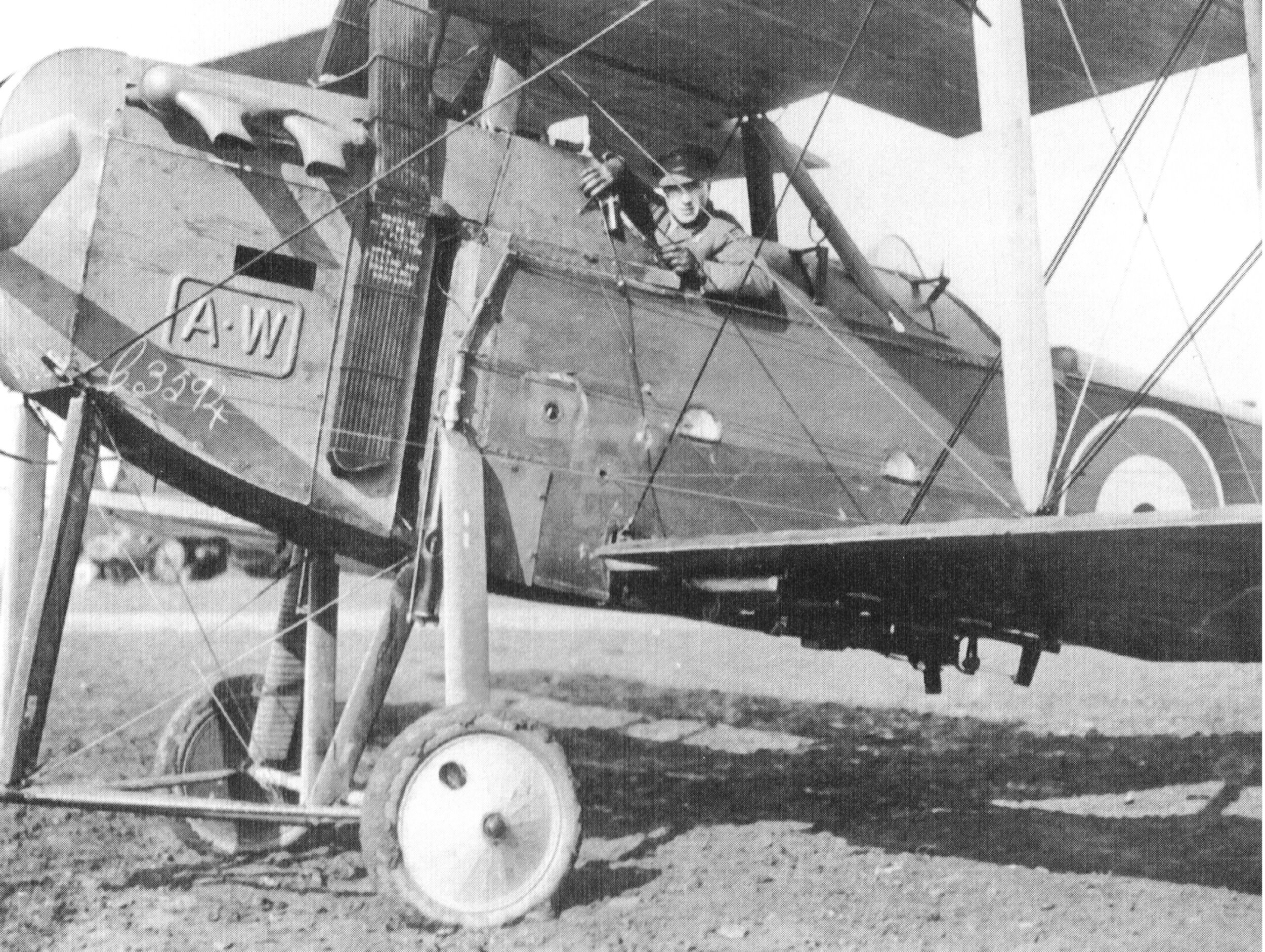 Side view of cockpit area of early production Armstrong Whitworth F.K.8 (First World War British Biplane aircraft)